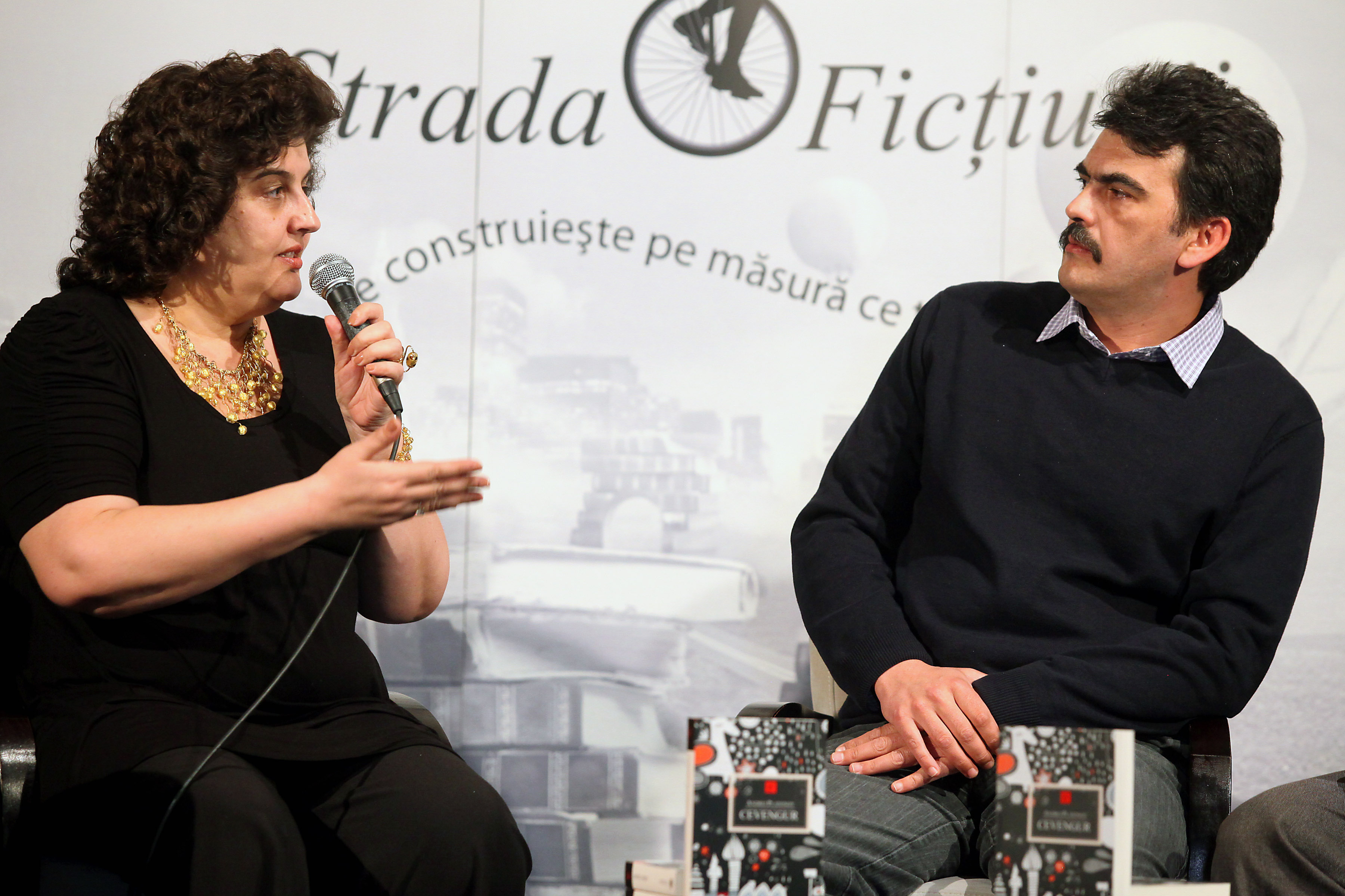 2012, Lansarea romanului Cevengur, cu Viorel Zaicu